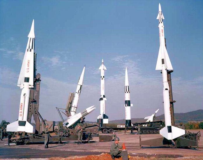 Nike Missile Family MIM-14 Nike Hercules · MGM-29 Sergeant · MIM-23 Hawk· LIM-49 Nike Zeus · MGM-31 Pershing 1 · MGM-18 Lacrosse · MIM-3 Nike Ajax